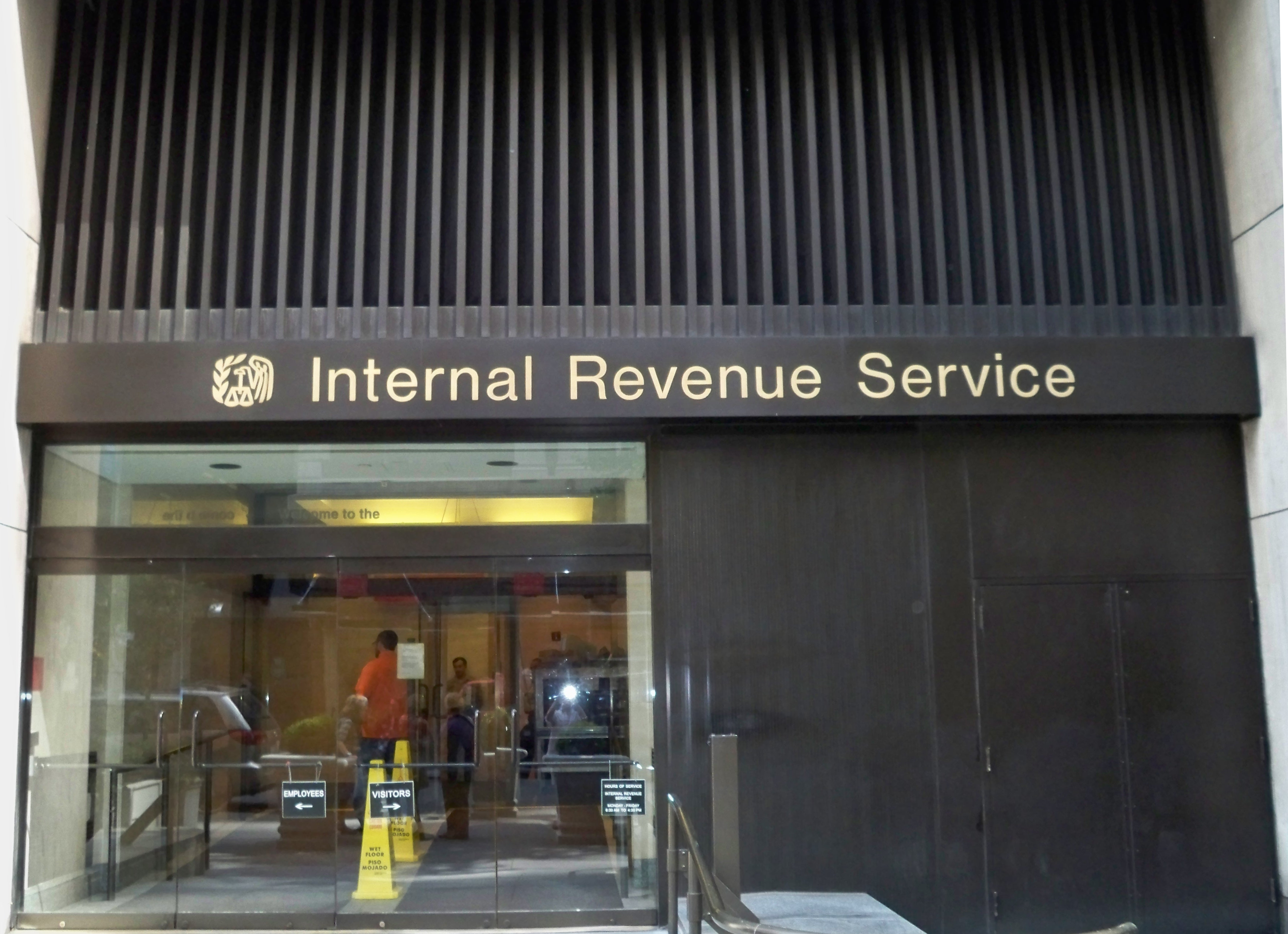 Exterior of the Internal Revenue Service office in midtown New York.